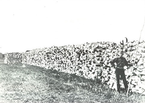 A pile of buffalo bones stacked for shipment to Saskatoon, young man posed in front